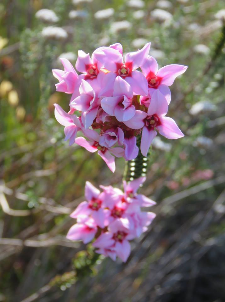 Sonderothamnus speciosus R. Dahlgren - Fernkloof,Hermanus, South Africa